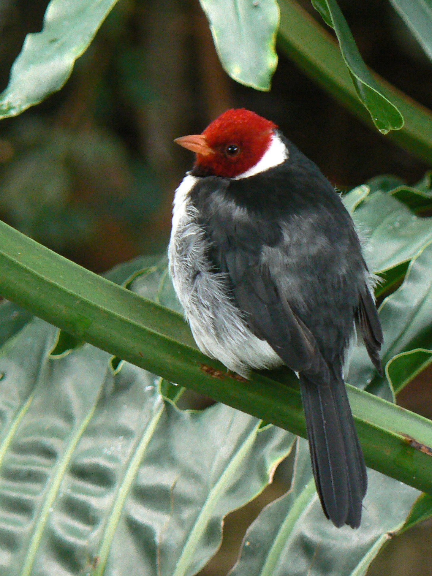 A Yellow-billed Cardinal at National Aviary, Pittsburgh, Pennsylvania, USA.